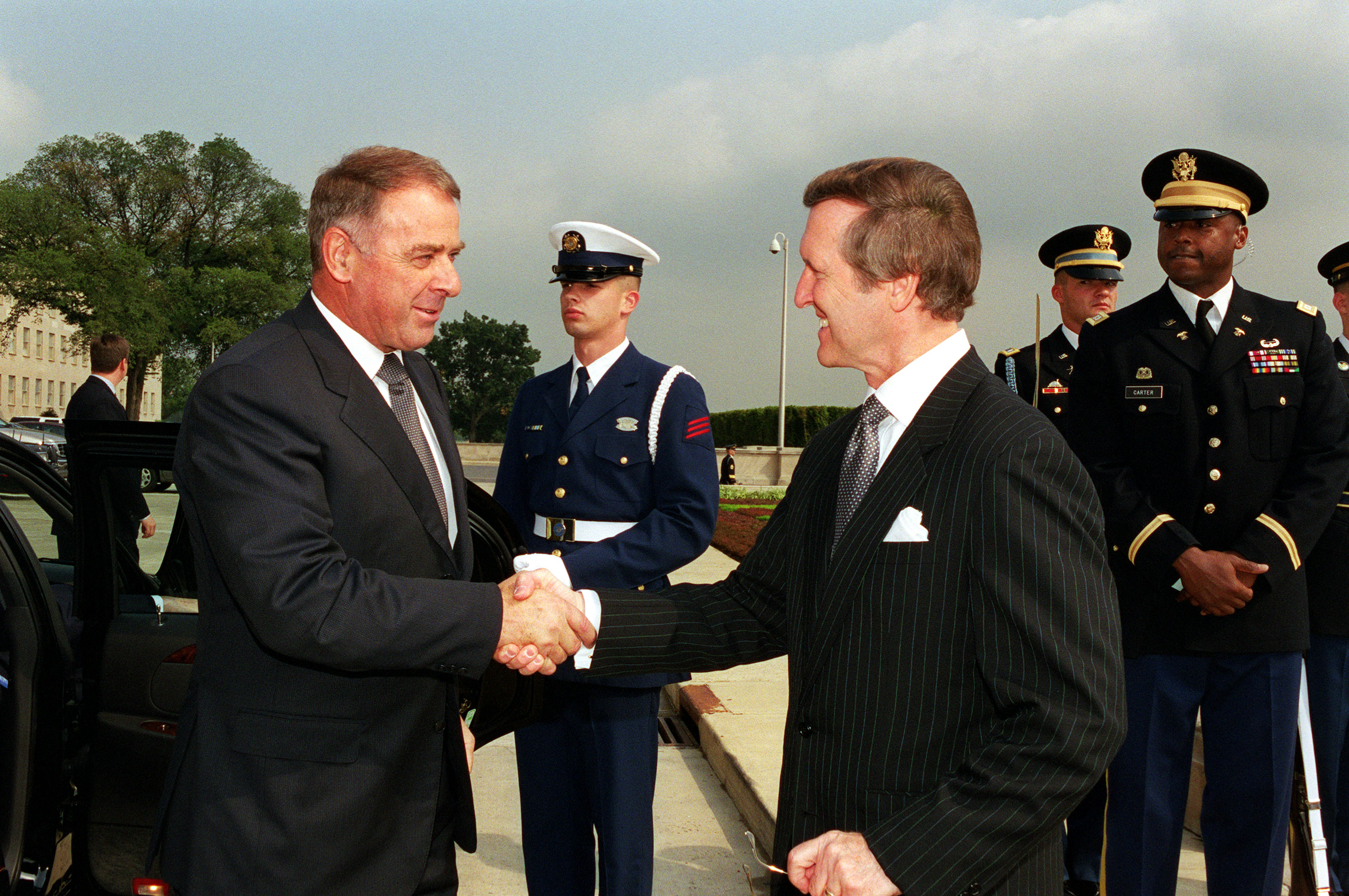 Adolf_Ogi Public Domain President and Minister of Defense Adolf Ogi (left), of Switzerland, is greeted by Secretary of Defense William S. Cohen (right) as he arrives at the Pentagon for an armed forces full honors arrival ceremony on July 28, 2000. Cohen and Ogi will meet to discuss security issues of interest to both nations. DoD photo by Helene C. Stikkel.(Released)